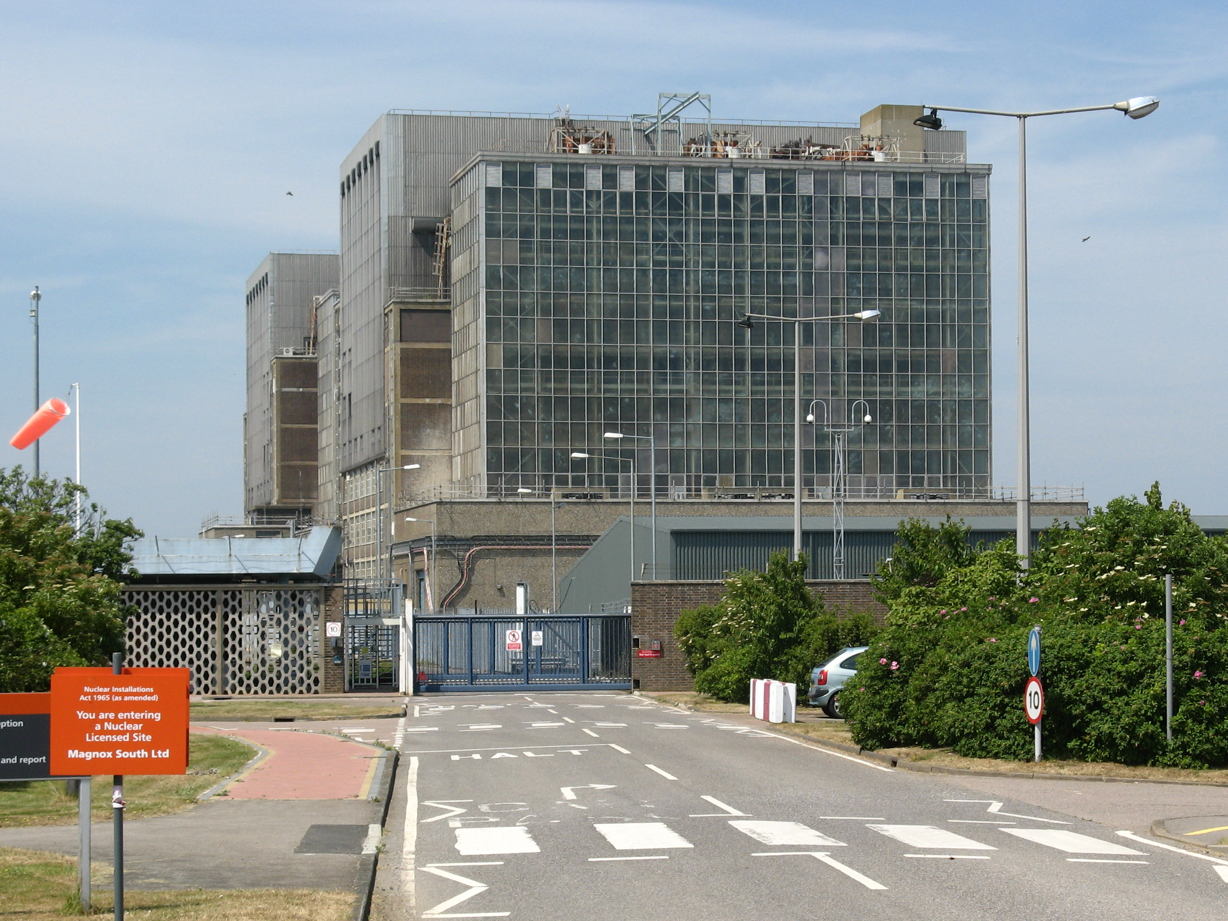 Bradwell nuclear power station, from entrance road. The two Magnox reactor buildings are shown, the generator buildings are out of image to the left. Photo taken in 2010 during decommissioning, after closure for electricity generation in 2002.